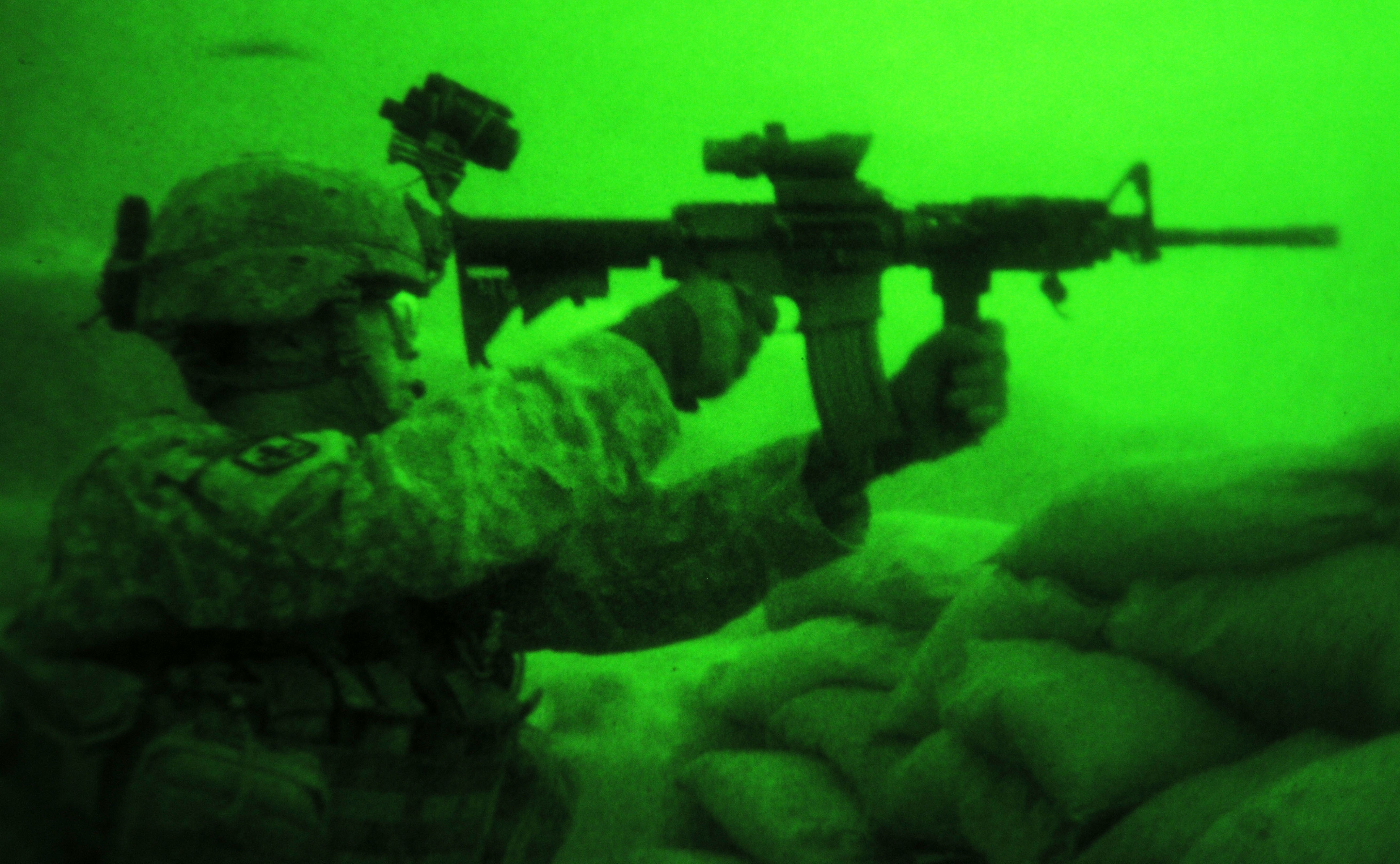 Brass shells fly as U.S. Army Sgt. Joseph P. Khamvongsa of Mililani, Hawaii, a forward observer with 1st Platoon, Company B, 2nd Battalion, 327th Infantry Regiment, Task Force No Slack, returns fire against an Aug. 25 insurgent attack on Combat Outpost Badel. The enemy attacked at dusk with small arms and rocket-propelled grenades against the base in eastern Afghanistan’s Kunar province. Neither International Security Assistance Forces nor Afghan National Security Forces were injured during the assault. Combined Joint Task Force 101 Photo by Staff Sgt. Gary A. WitteSmall Related Photos